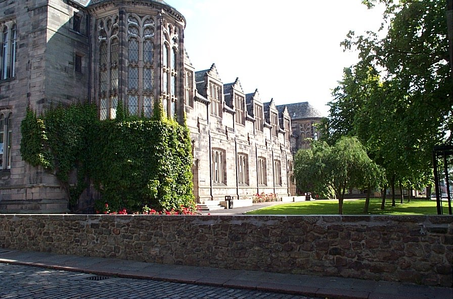 The New Kings Building, at the University of Aberdeen, Scotland.